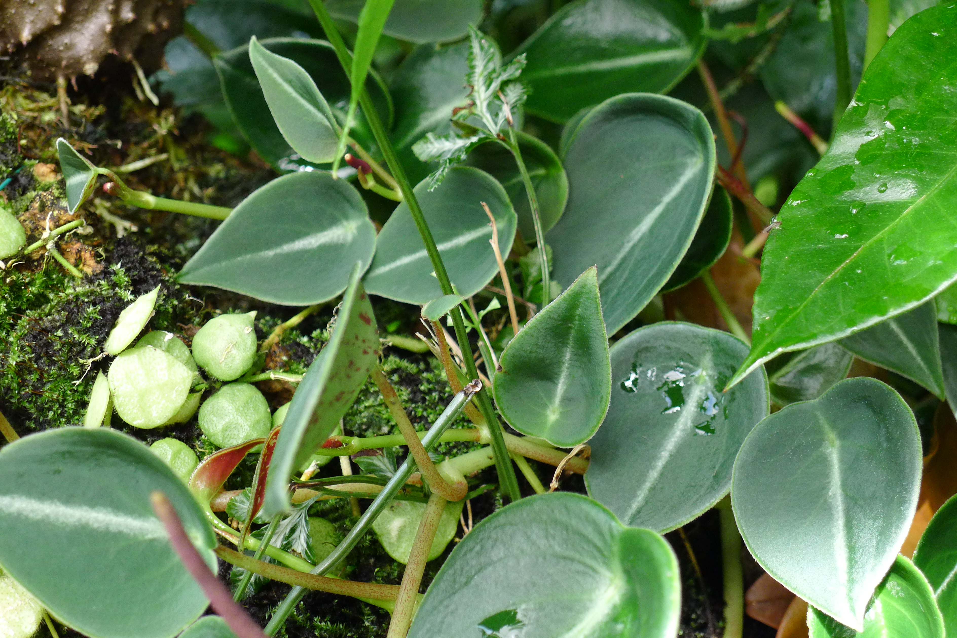 Dischidia hirsuta in the Boltz Conservatory of Olbrich Botanical Gardens in Madison, Wisconsin